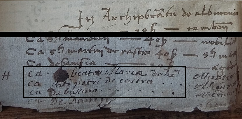 Extrait du Pouillé de 1520. Ancien diocèse de Limoges (Source : Archi.dept.87)